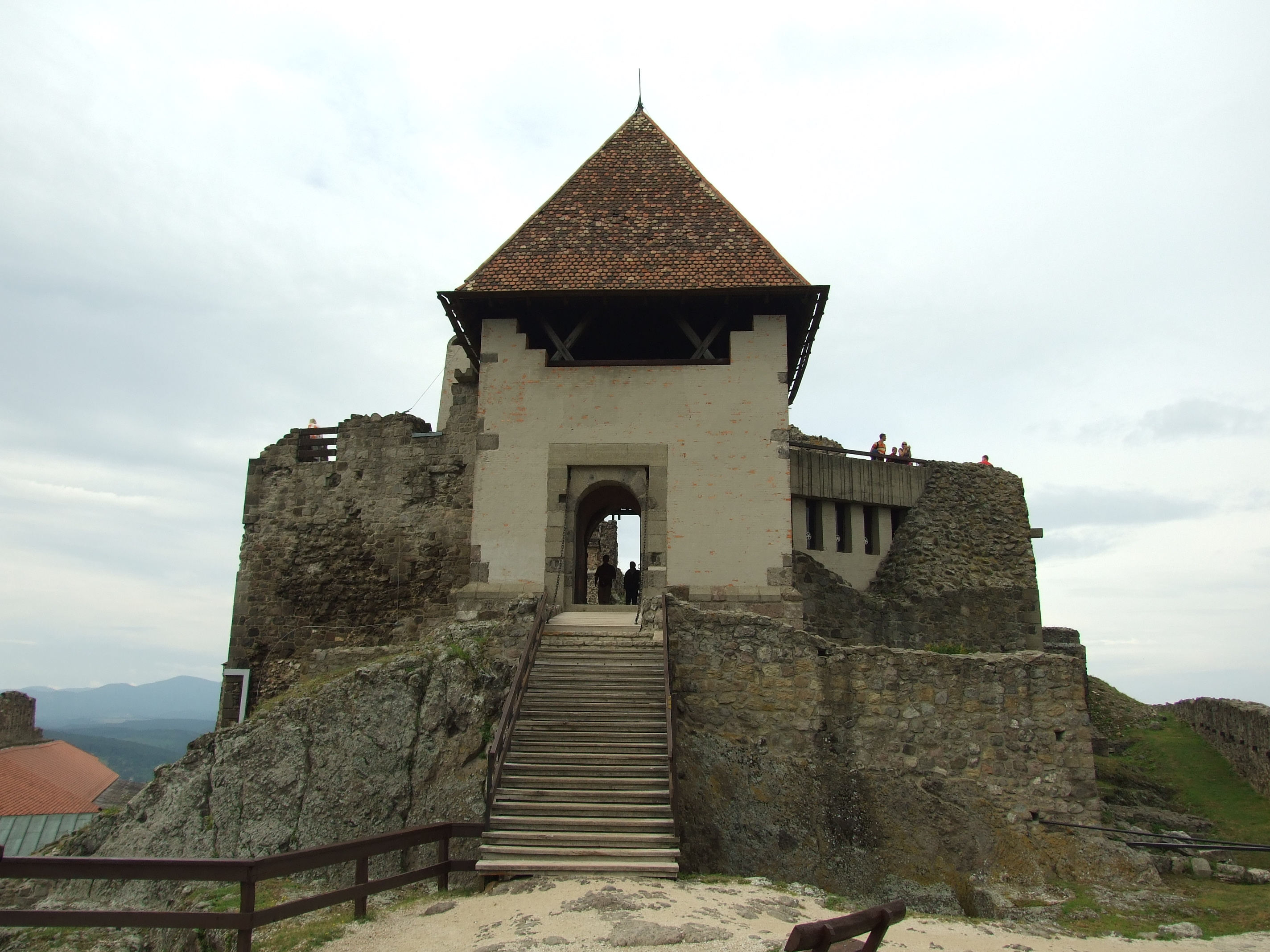 Fellegvár castle in the city of Visegrád, Pest comitat, Hungaryhelp